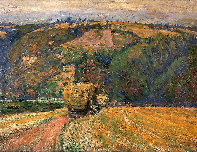 Cart loaded with hay